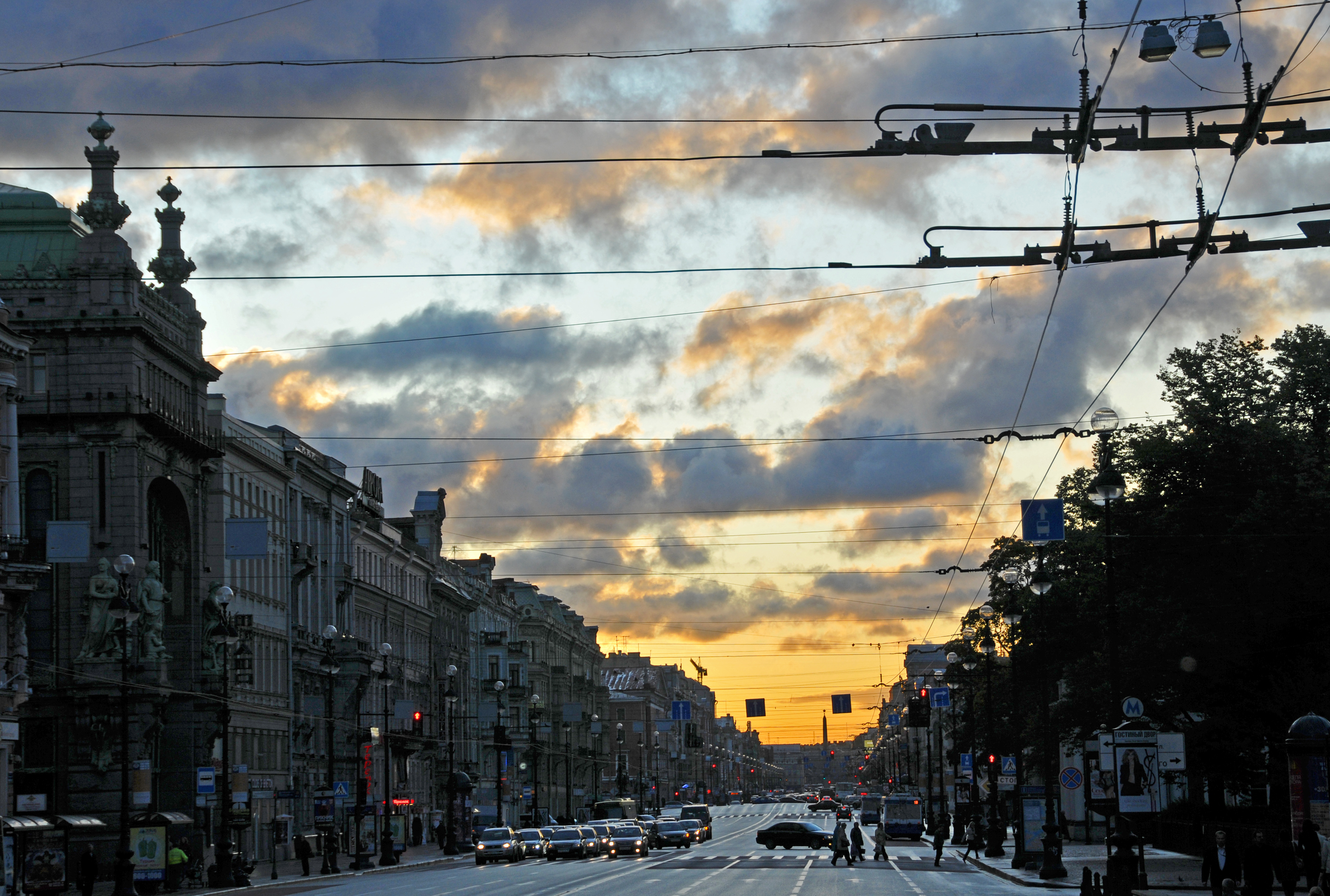 Nevsky Prospekt in Saint Peterburg.